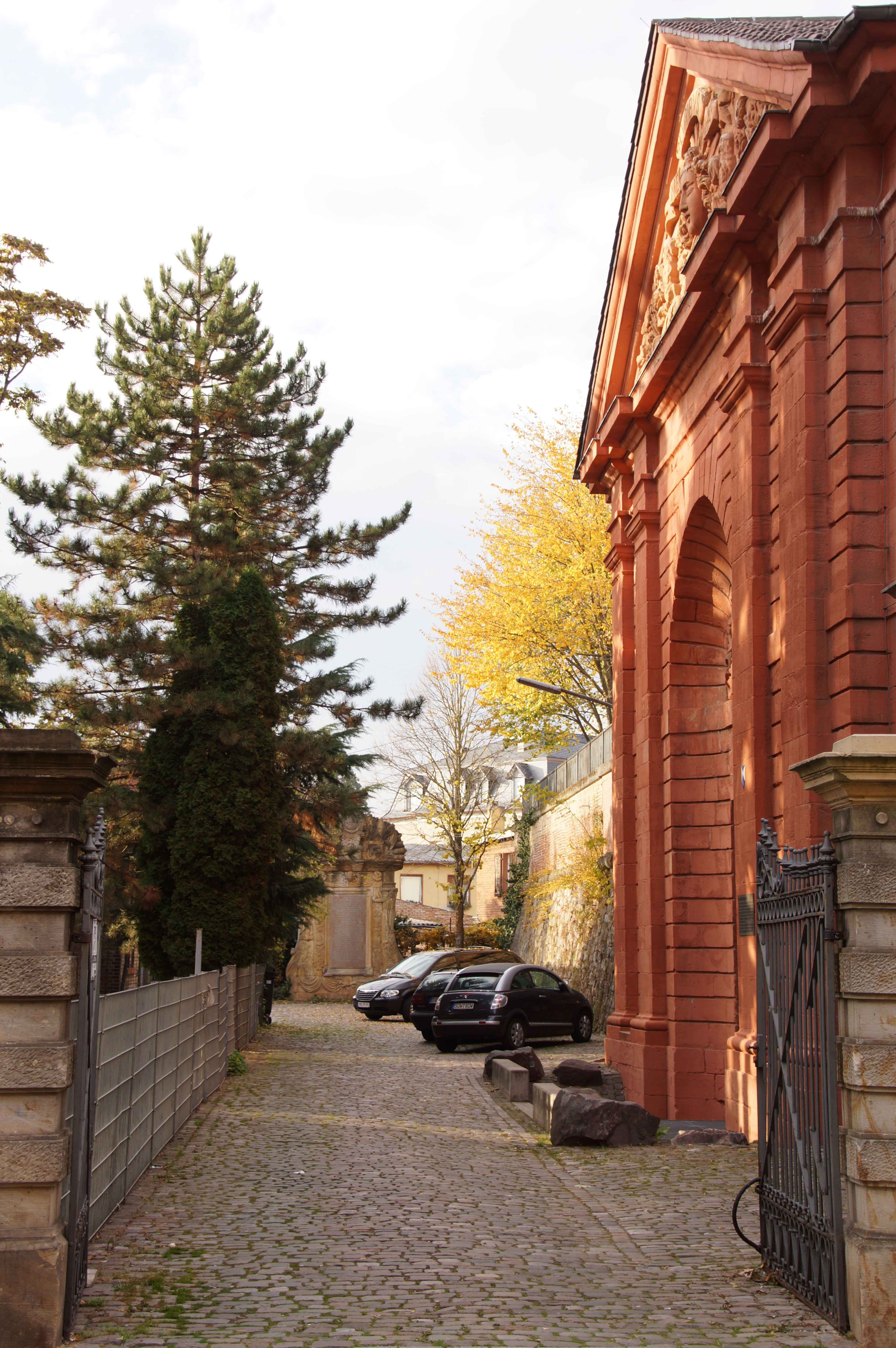 French Gate in Landau in der Pfalz (Germany)